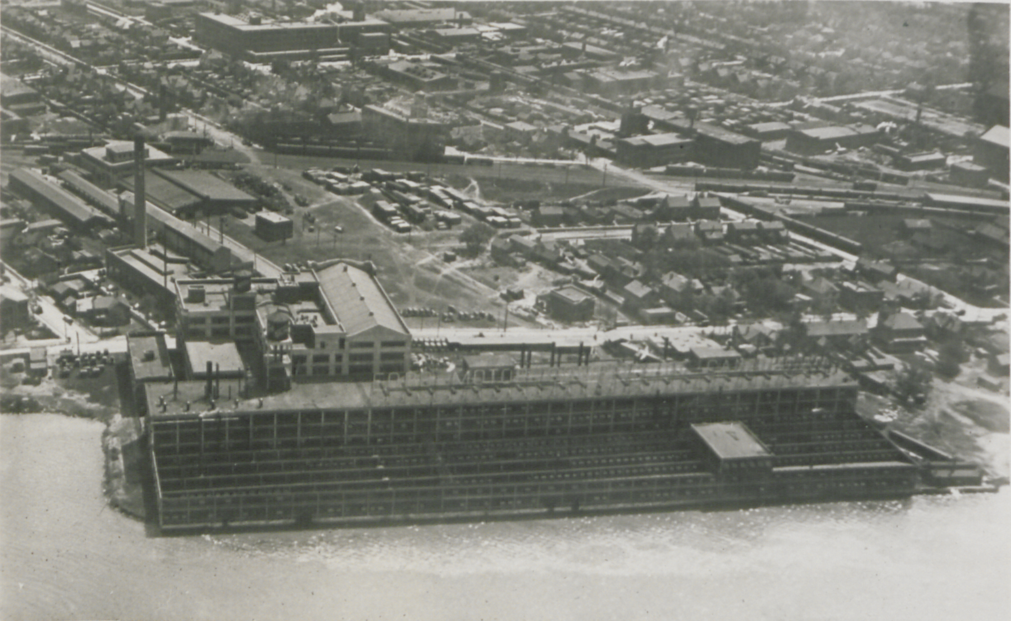 Original caption: “Ford Motor Plant from an Aeroplane - Ford, Ont.”At the time of this photograph, Ford City was a company town in Ontario, located adjacent to Windsor and which contained a Ford automobile plant which at one point employed more than 14,000 people. Ford City merged with Windsor in 1935. In 1953, Ford moved most of its Canadian operations to Oakville, Ontario.